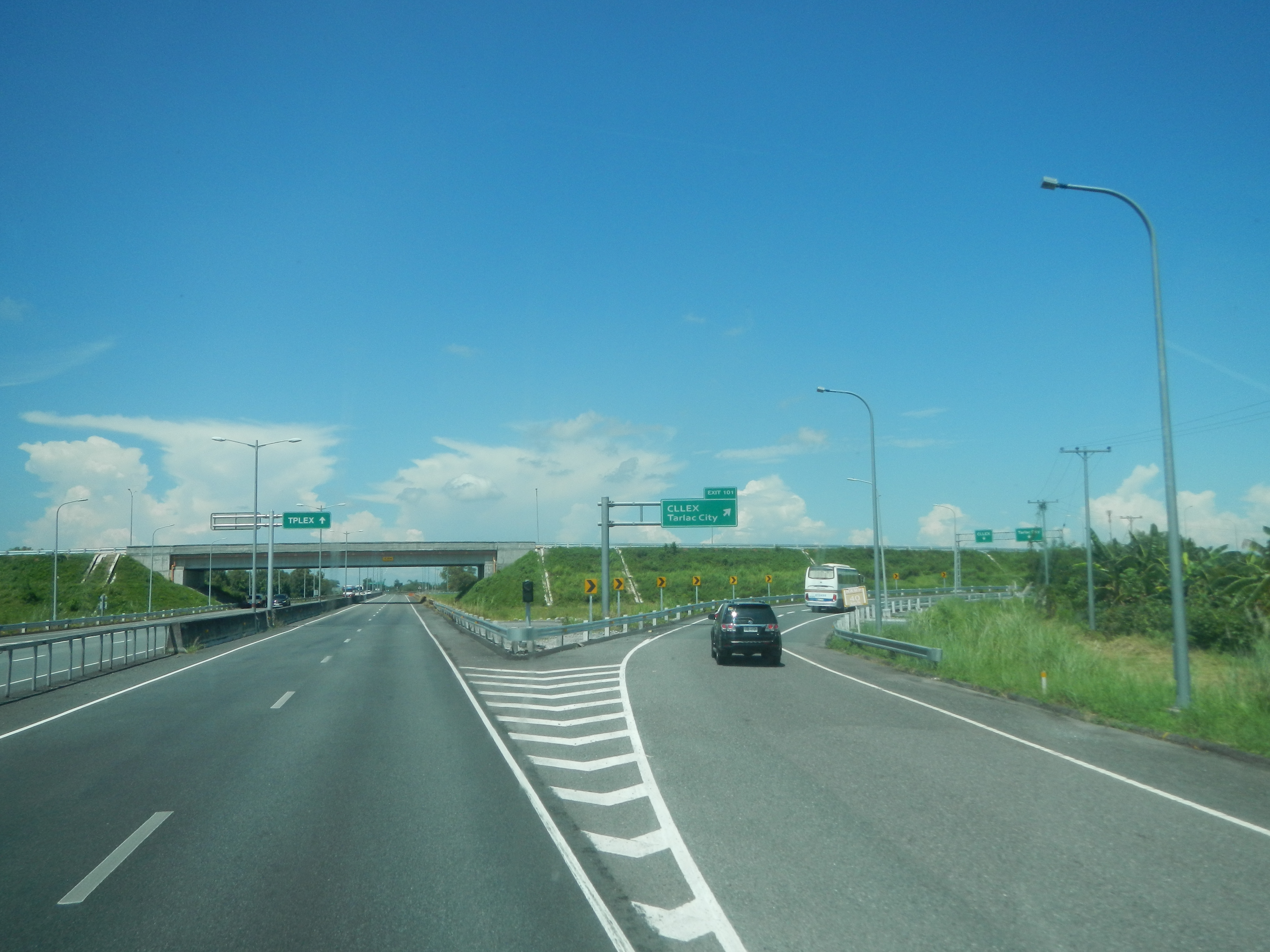 Central Luzon Link Expressway CLLEX Exit 101 Tarlac City Central Luzon Link Expressway interconnecting SCTEX CLLEX Exit 101 Philippine highway network (Note: Judge Florentino Floro, the owner, to repeat, Donor Florentino Floro of all these photos hereby donate gratuitously, freely and unconditionally Judge Floro all these photos to and for Wikimedia Commons, exclusively, for public use of the public domain, and again without any condition whatsoever).